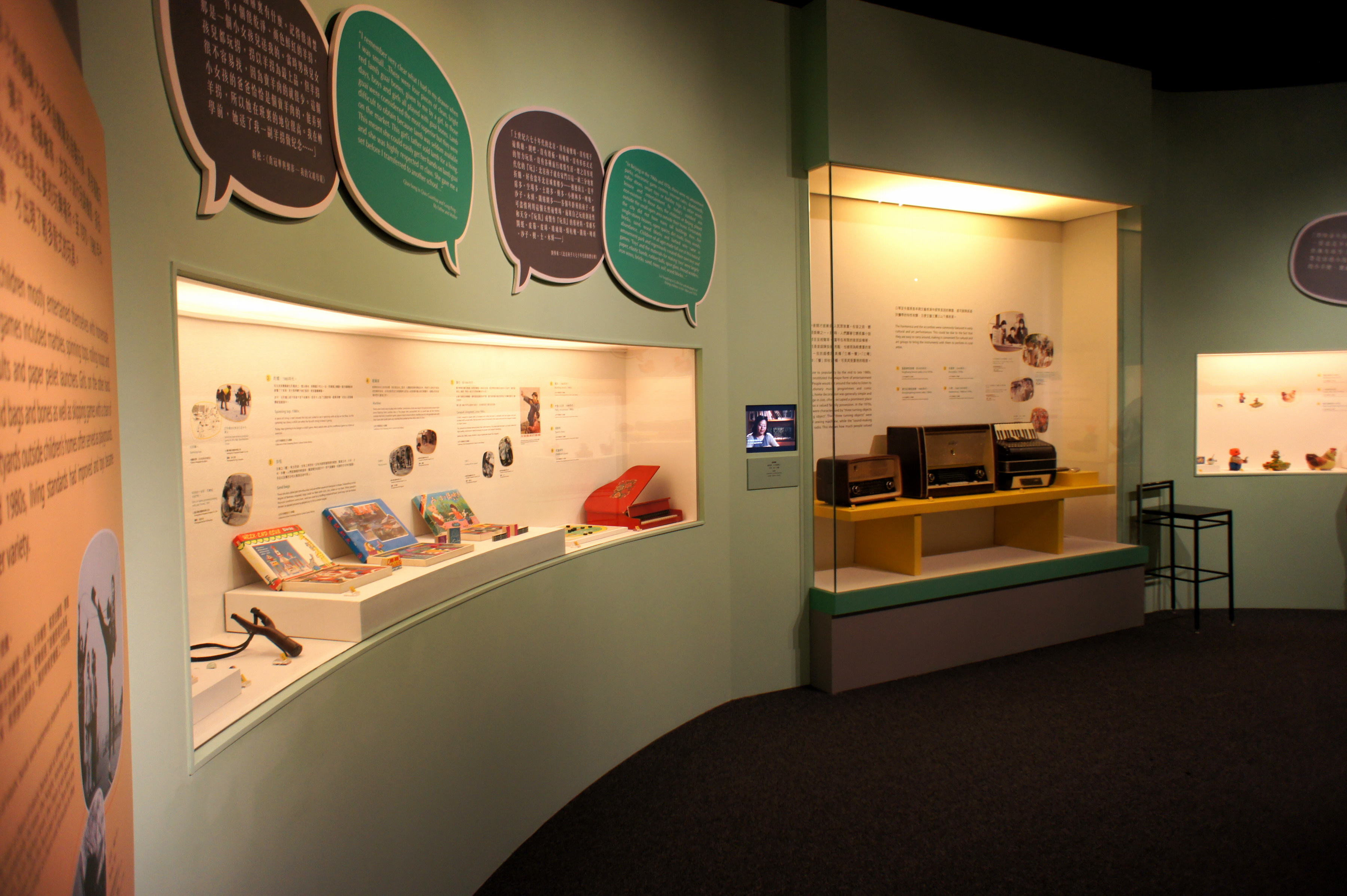 ”Collected moments from daily life" section of the "The Flavours of Everyday Life in China - Memories from the Past Half Century" exhibition at the Hong Kong Museum of History. (July 6 - Sept 26, 2011)